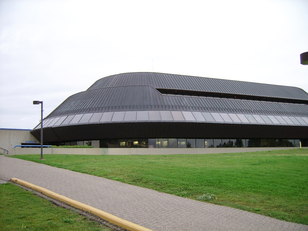 The Students' Union (SU) building at the University of Lethbridge. Taken just east of the building in the early morning.